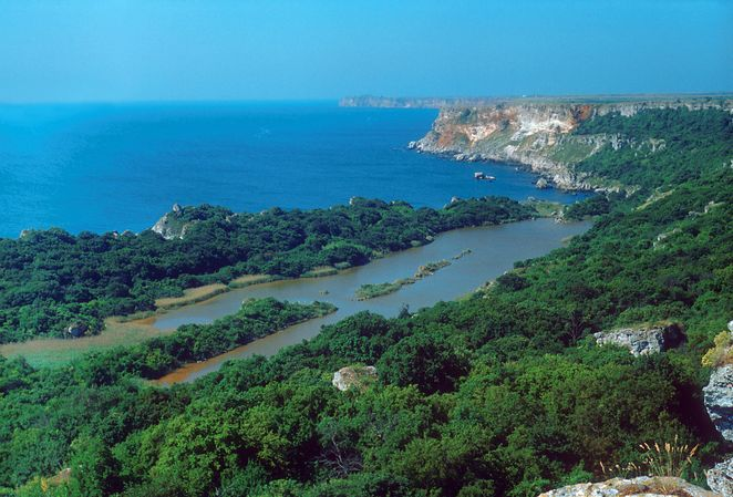 Taukliman salt lake on the Bulgarian Black Sea coast